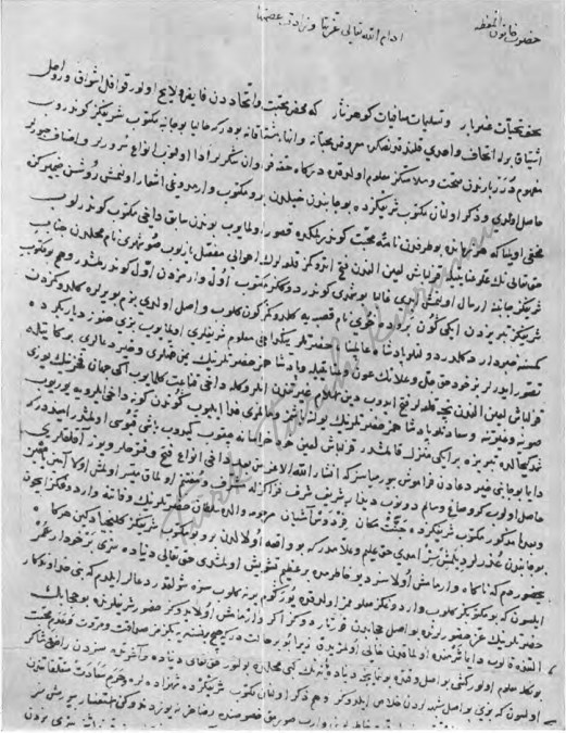 The letter written by İbrahim Pasha to his wife